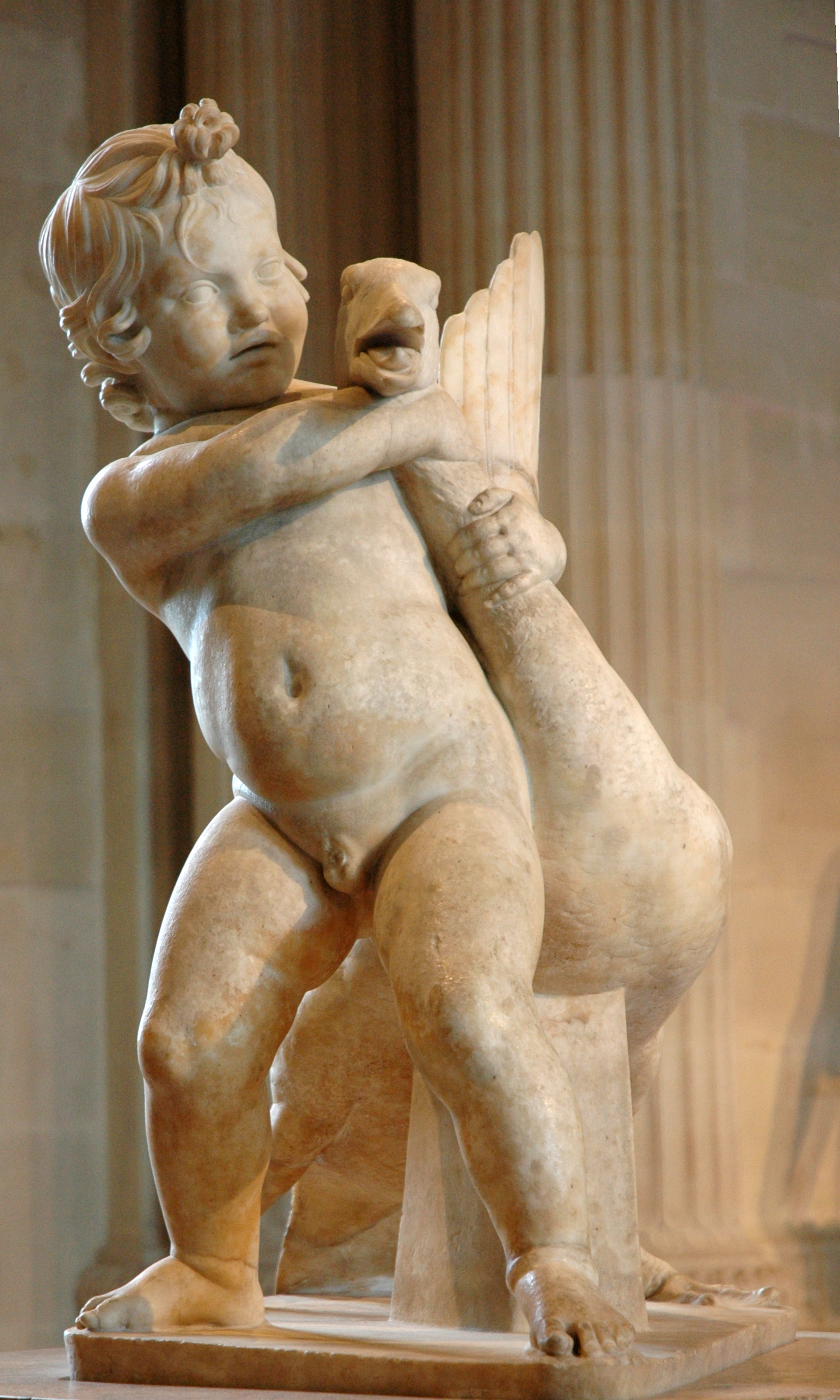 Child playing with a goose. Roman copy (1st–2nd centuries AD) of a Greek original of the 2nd century BC. Marble, found in 1792 in the Quintilii Villa, by the Via Appia, not far from Rome. Other copies are now shown in the Glyptothek of Munich and in the Vatican Museums.